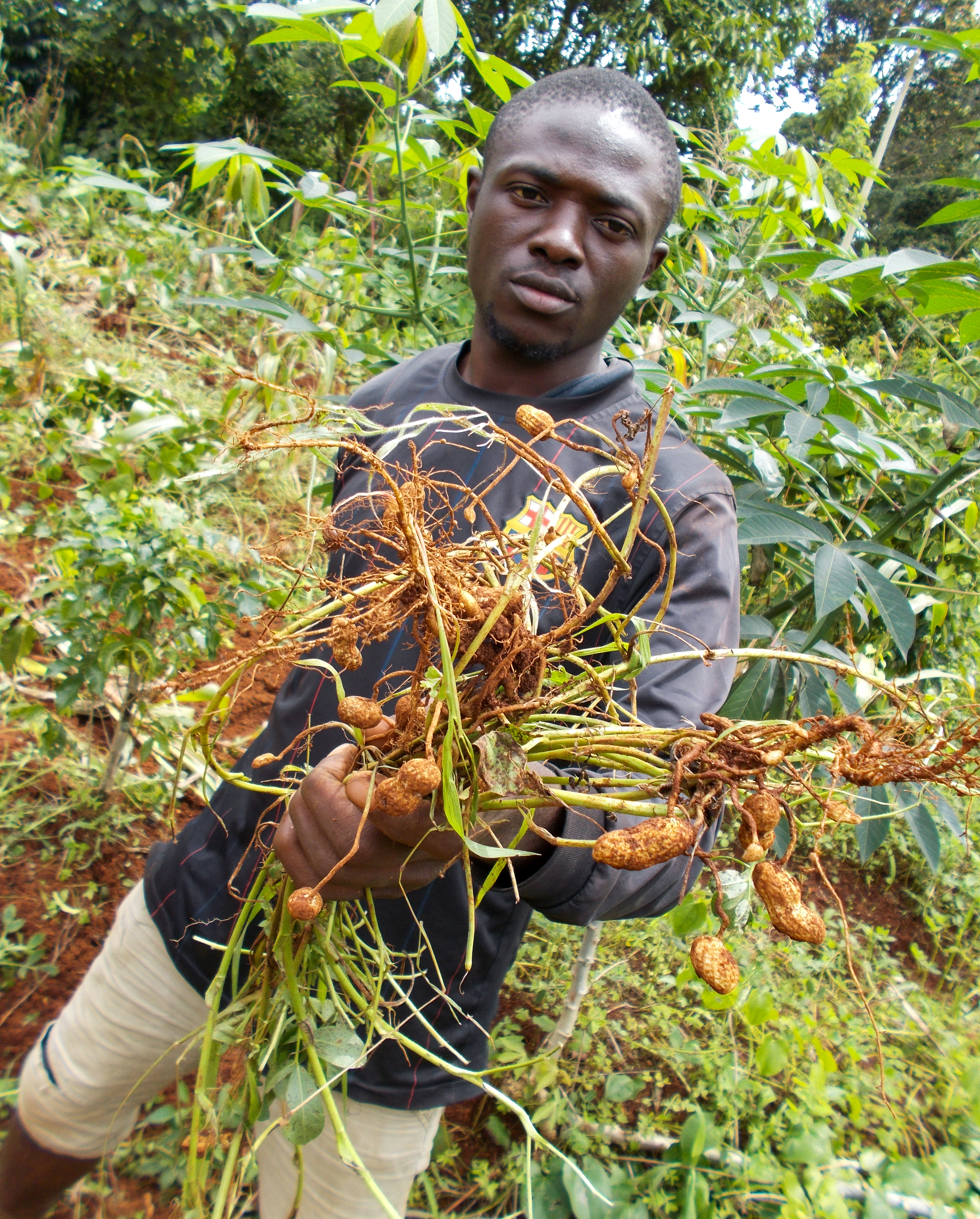 geradin gnotue fotso in his grand mother's farm during the Harvest of peanuts'period in Bandjoun, Cameroon